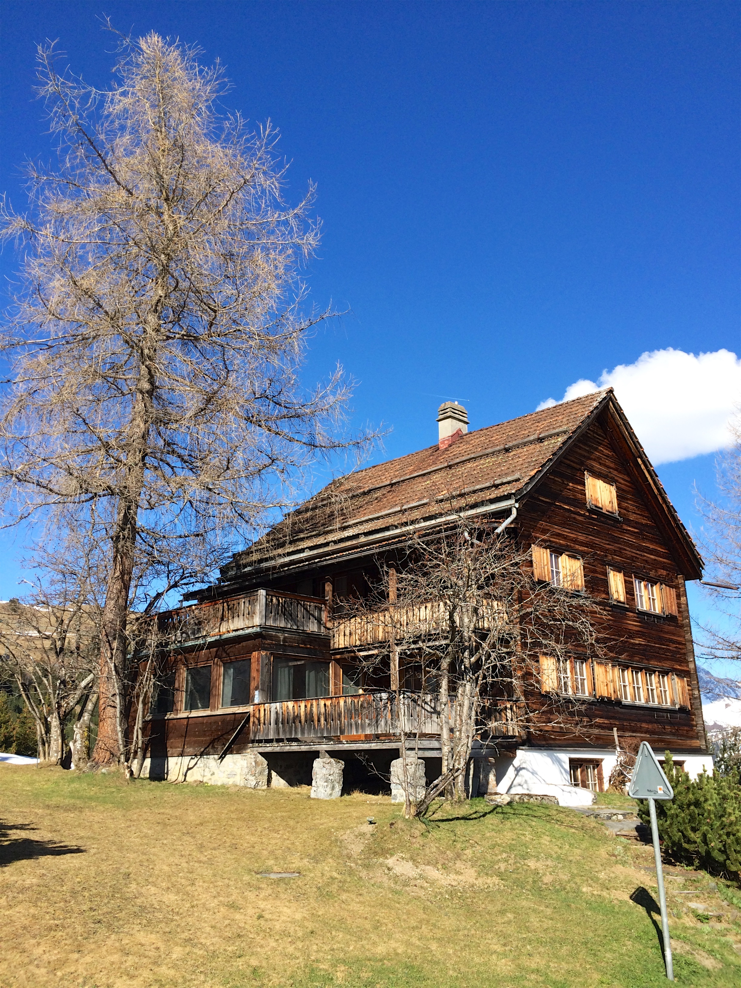 House of Politician Hans Hold in Arosa/Switzerland